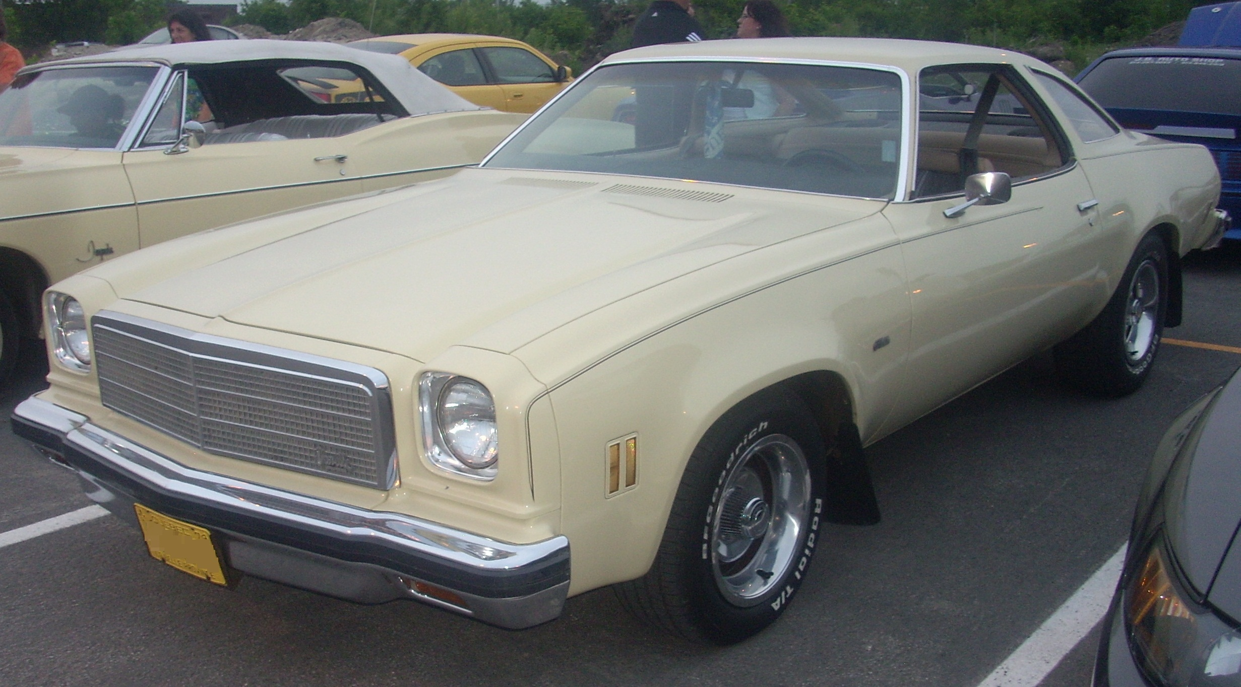 1974 Chevrolet Chevelle photographed in Laval, Quebec, Canada at Centropolis Laval.